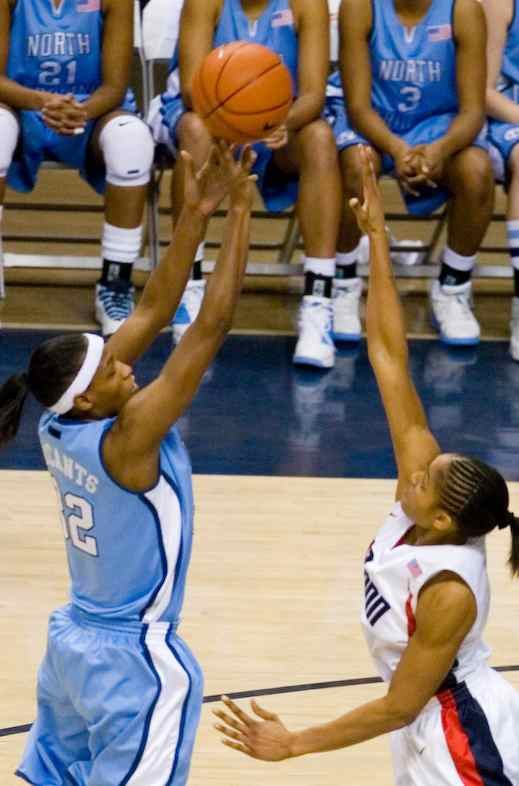 Rashanda McCants versus Connecticut 1/21/2008